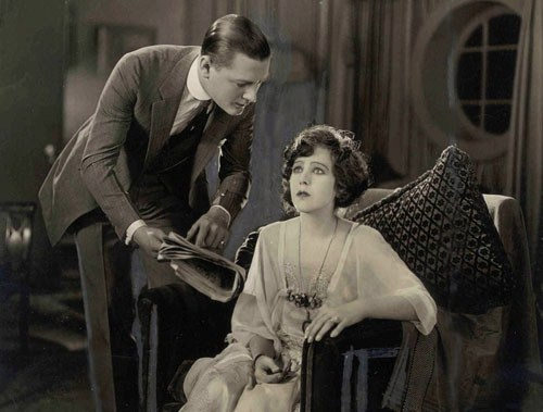 Kenneth Harlan and Jewel Carmen in the American mystery film Nobody (1921) - cropped screenshot.